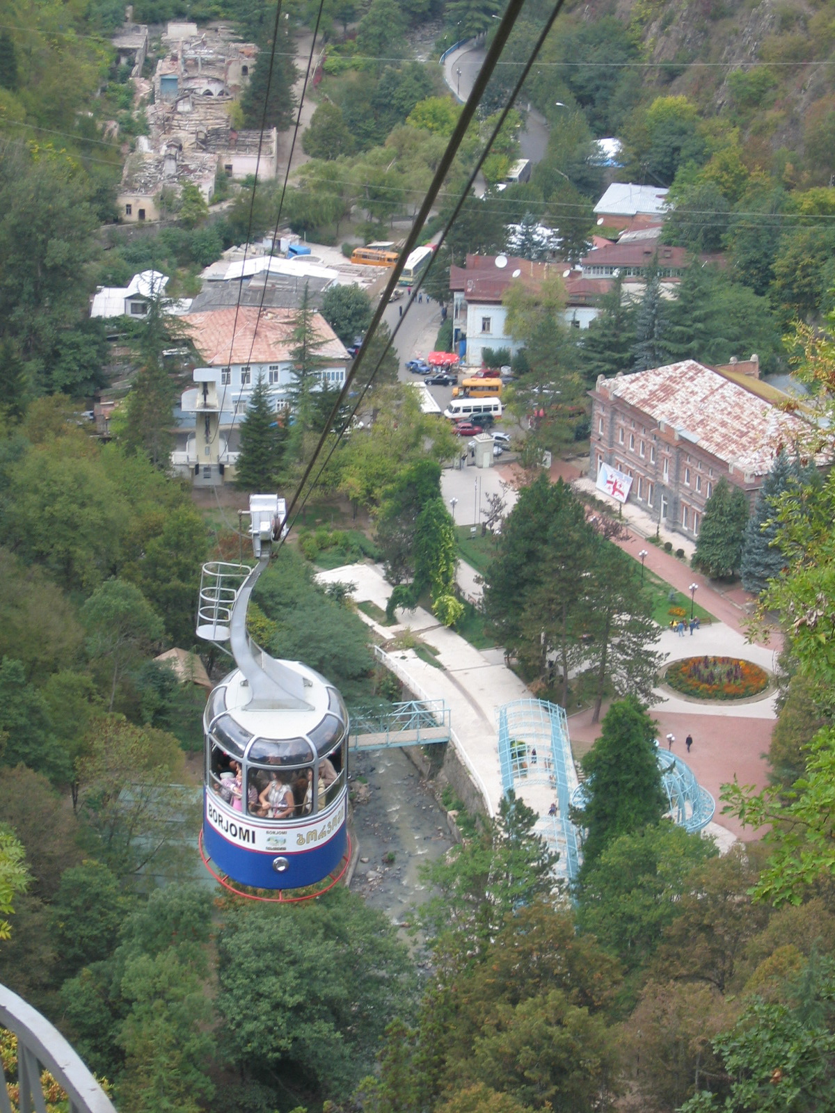 Borjomi in Georgia